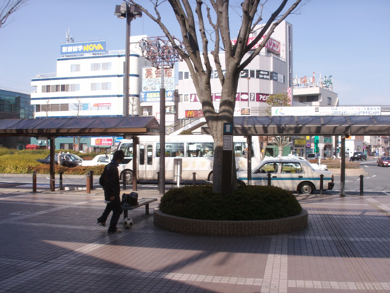 West Exit of Kuki Station